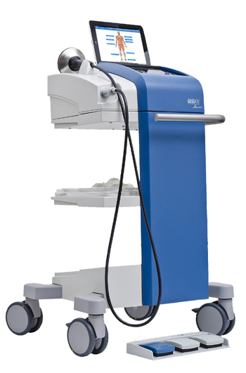 Focused shockwave system